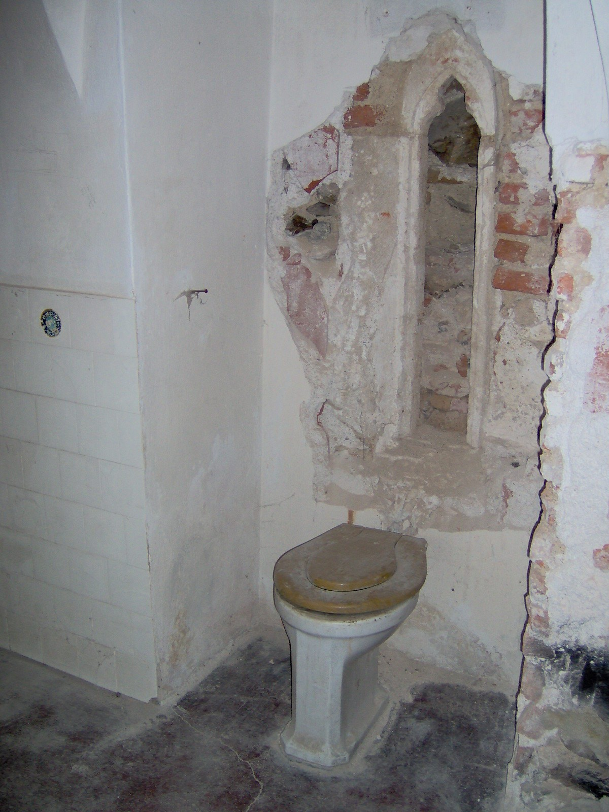 Modern WC and gothic window, Veveří castle, Brno, Czech Republic